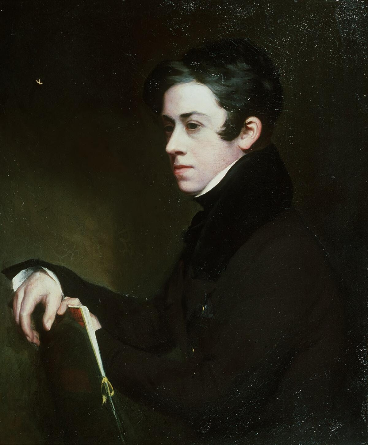 A painting from the Framed Works of Art collection at the National Library of wales.